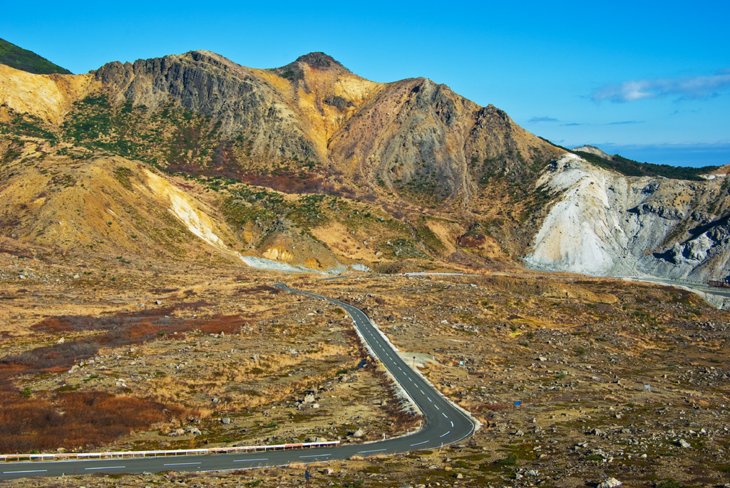 The Banda-Azuma Skyline